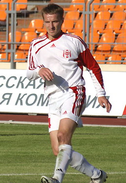 Mihail_Harbachow_football